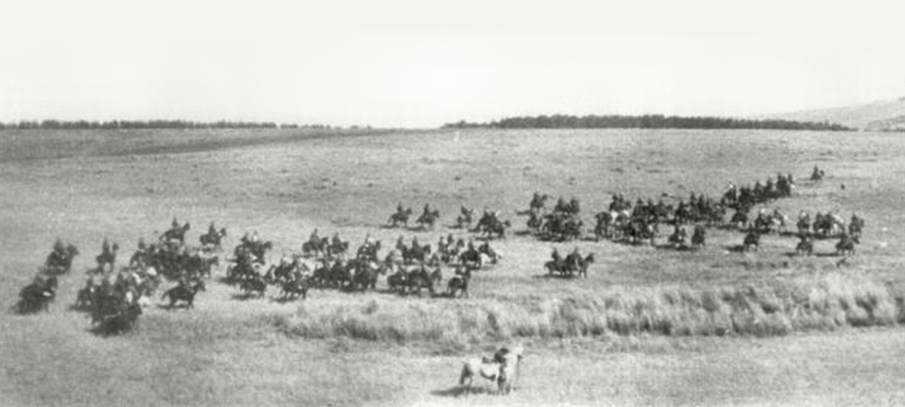 The Transvaal Mounted Rifles on open terrain